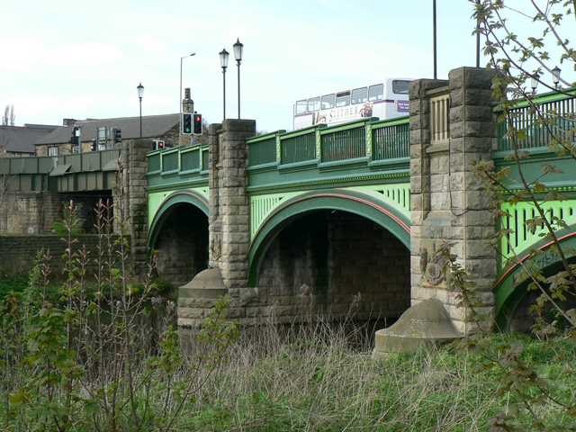 Bridge over River Aire, Kirkstall. The bridge carries Bridge Road over the river by The Bridge pub. Beyond the river it also crosses the railway line.